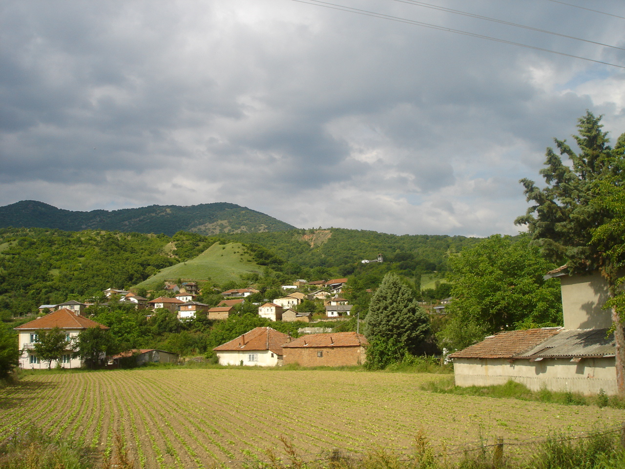 village of Izvor, near Veles, Macedonia